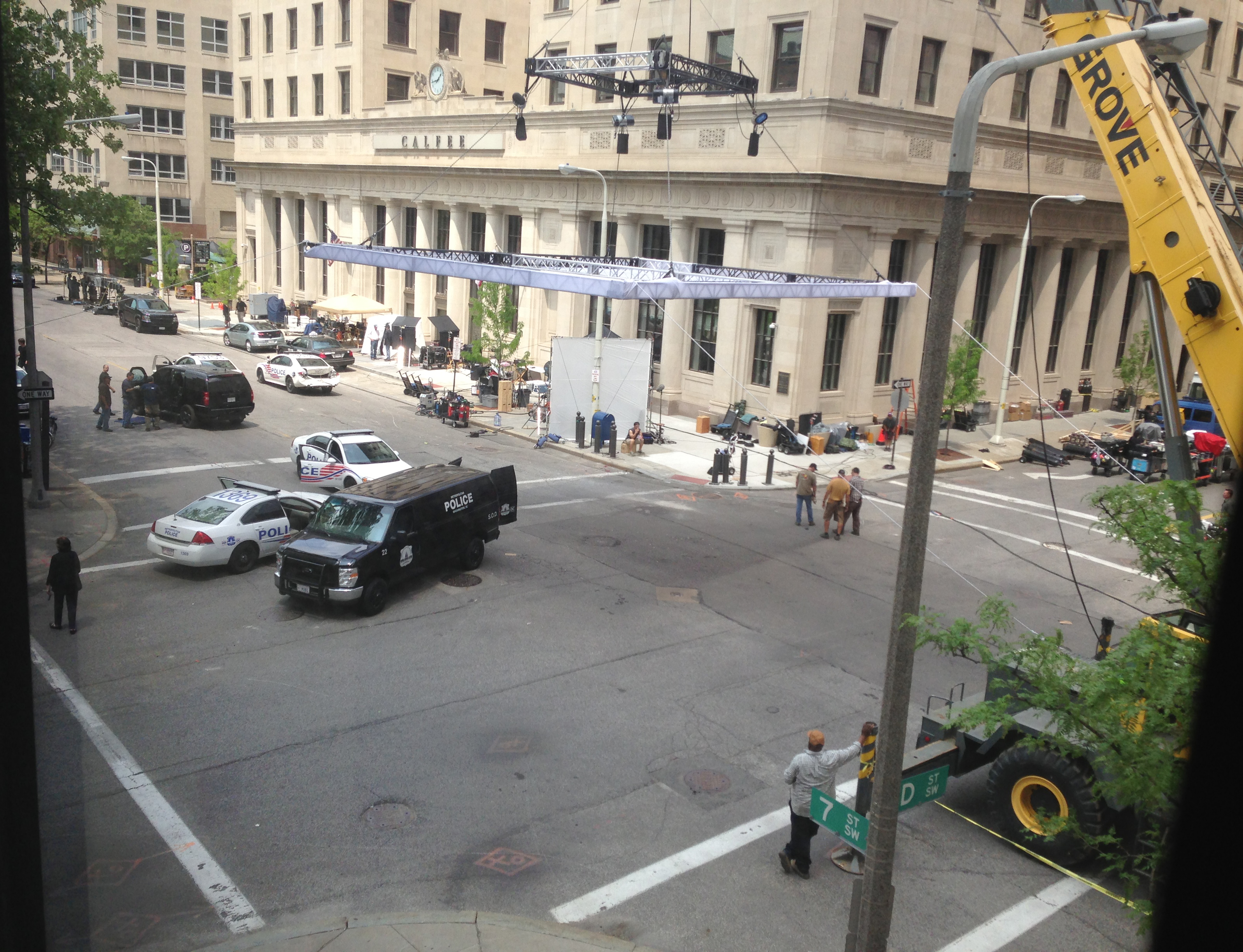 Film set for Captain America: The Winter Soldier in Cleveland, Ohio.